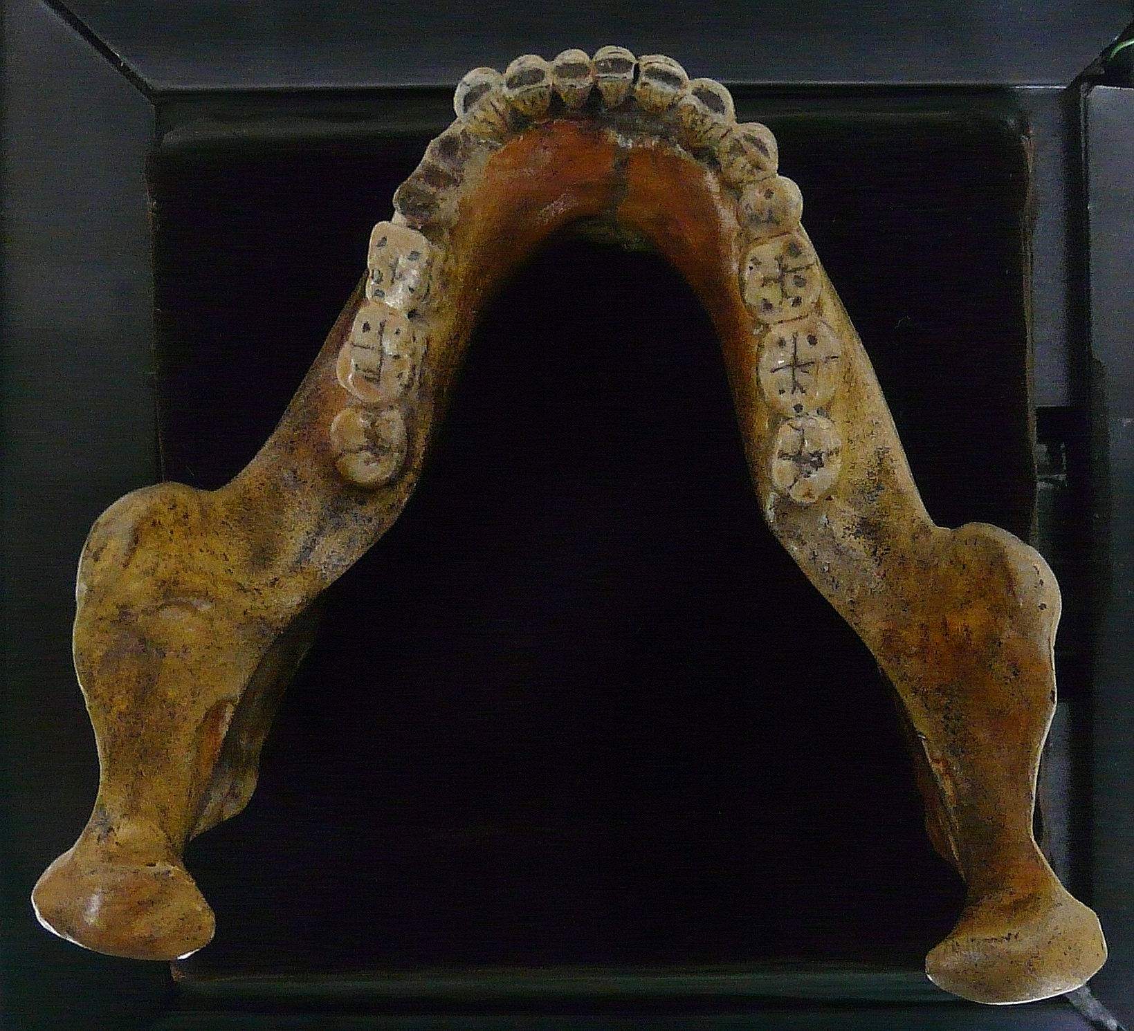 Mandible (lower jaw) of the type specimen of Homo heidelbergenis from Mauer near Heidelberg, Germany (replika, museum of the Institute of Earth Sciences, University of Heidelberg)